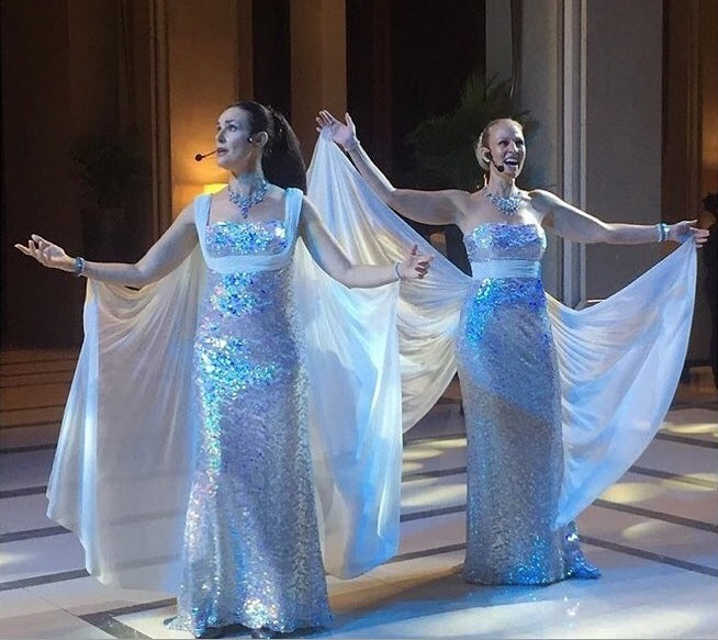 Opera singers Caroline Gentele & Gabriella Lambert-Olsson of DivineOpera in a public performance in ThailandPlace: Siam Kempinski Hotel, Banok, Thailand